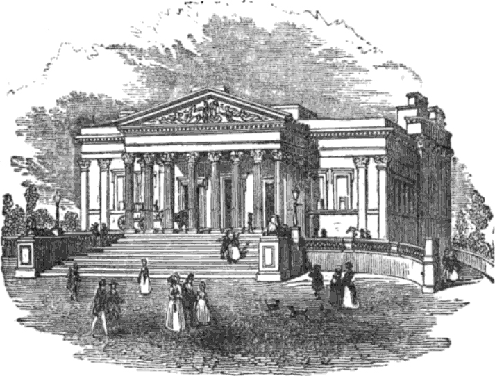 An engraving illustrating the Victoria Rooms, Bristol, UK from Chilcott's descriptive history of Bristol by John Chilcott (1849)